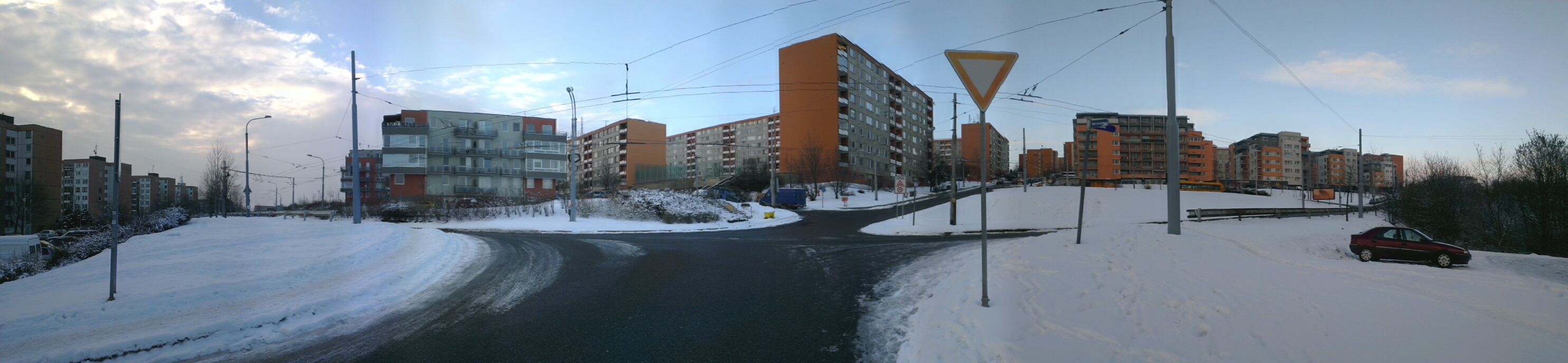 Jižní Svahy district on Středová street, in January 2013